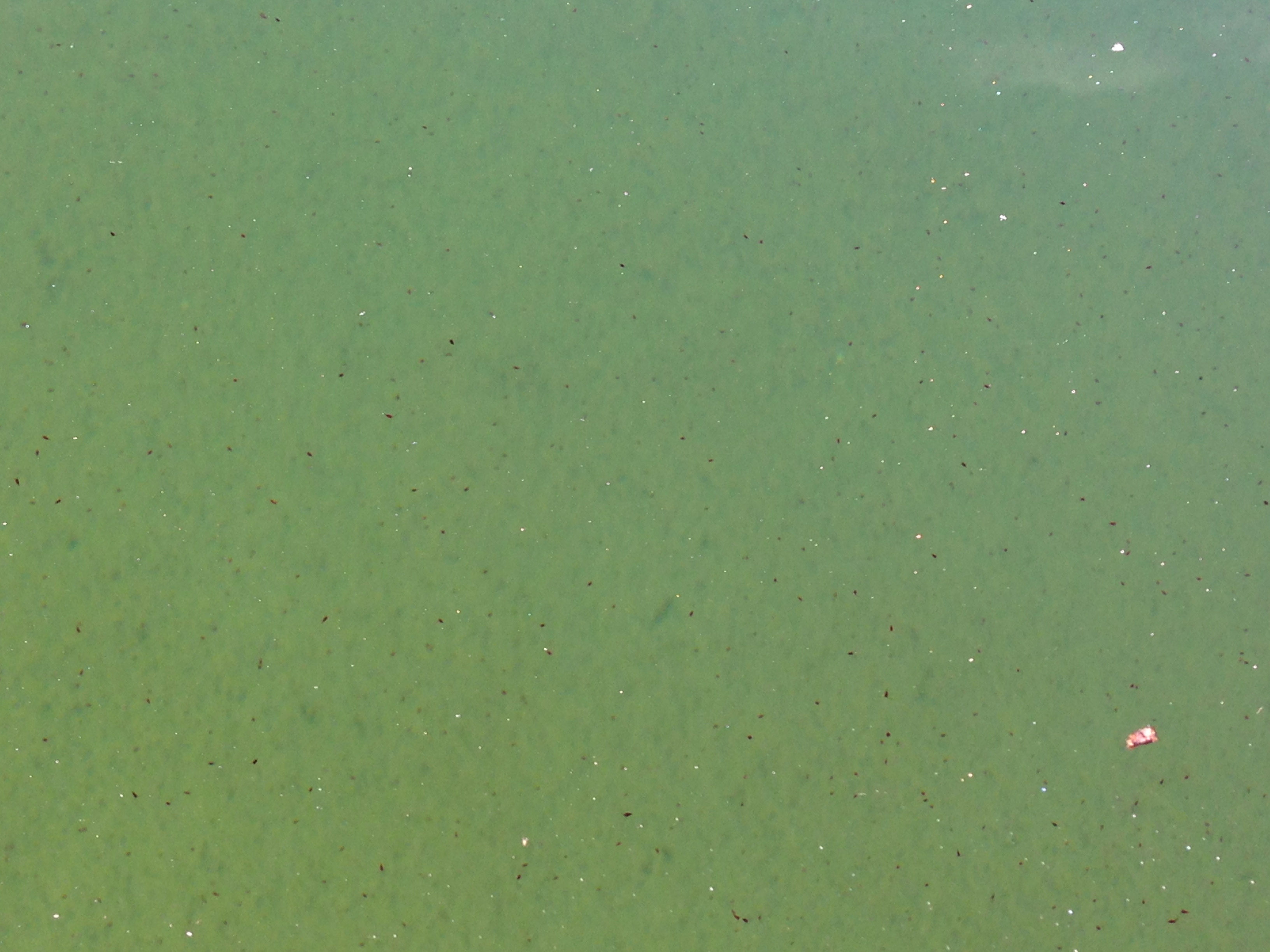 Red copepods visible in a mountain lake with introduced trout.